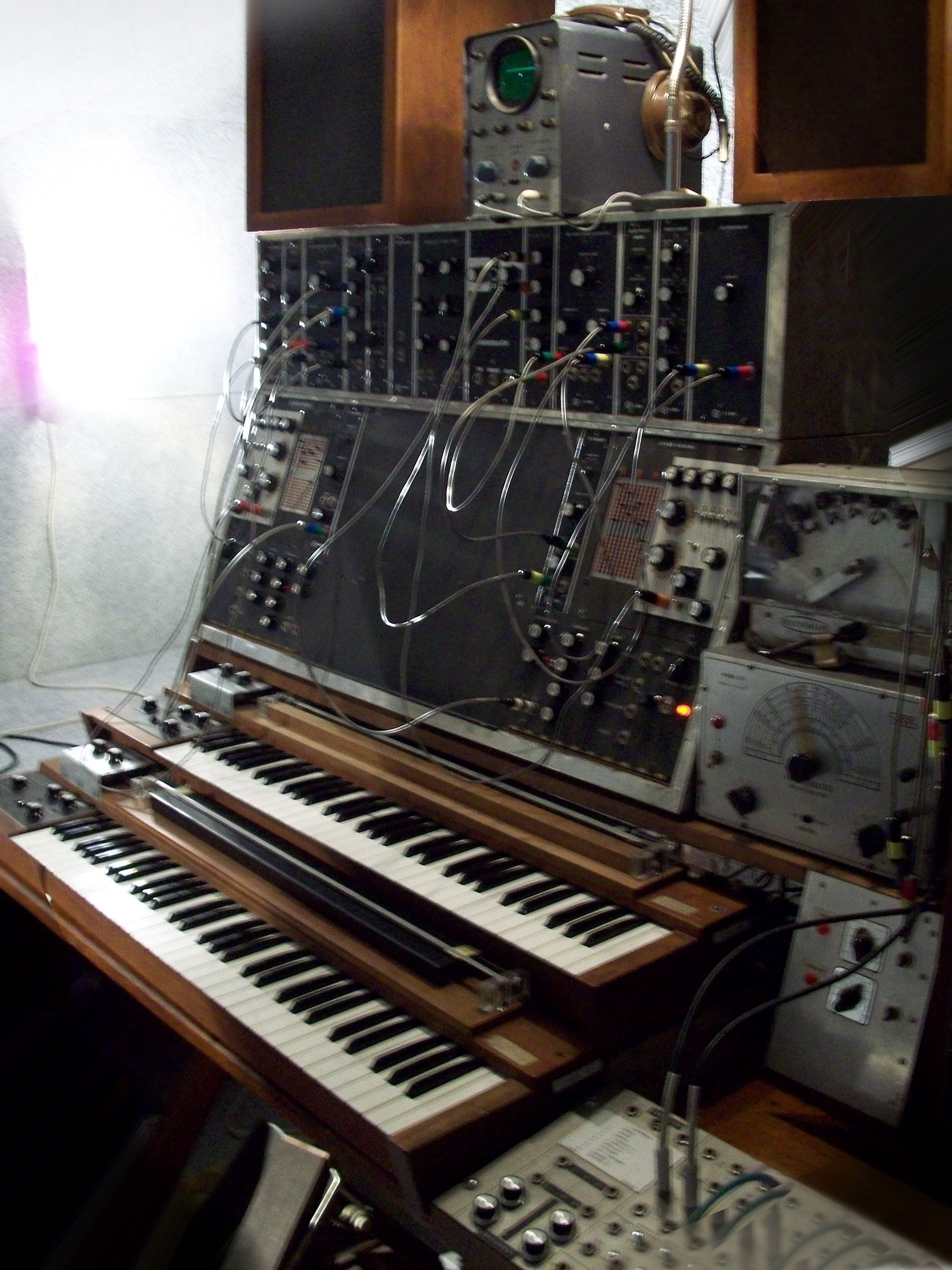 Max Brand Synthesizer aka Moogtonium (1968) Max Brand's own version of Mixture Trautonium built by Robert Moog during 1966-1968. Max Brand Synthesizer (Max Brand, NY 1957-67) keyboard, bandmanual, pedals, patch board, mixer VCO, Freq. Divider (4 subs), LFO, Ring Modulator, LPF, Formant Filter, EG Note: It consists of many Moog modules (keyboards, 901B VCO, 902 VCA, etc), because it was built by Robert Moog (see above). “Zauberhafte Klangmaschinen” Vergessene Zukunft #1 Kulturfabrik Hainburg 20.9.08 - 19.4.09 Arts Birthday 2009 References From the Archives: Moogtonium Discovered, January 2009, Bob Moog Foundation Articles tagged with 'Max Brand', MATRIXSYNTH Max Brand Synthesizer, Zauberhafte Klangmaschinen, Institut of Media Archaeologie (IMA)